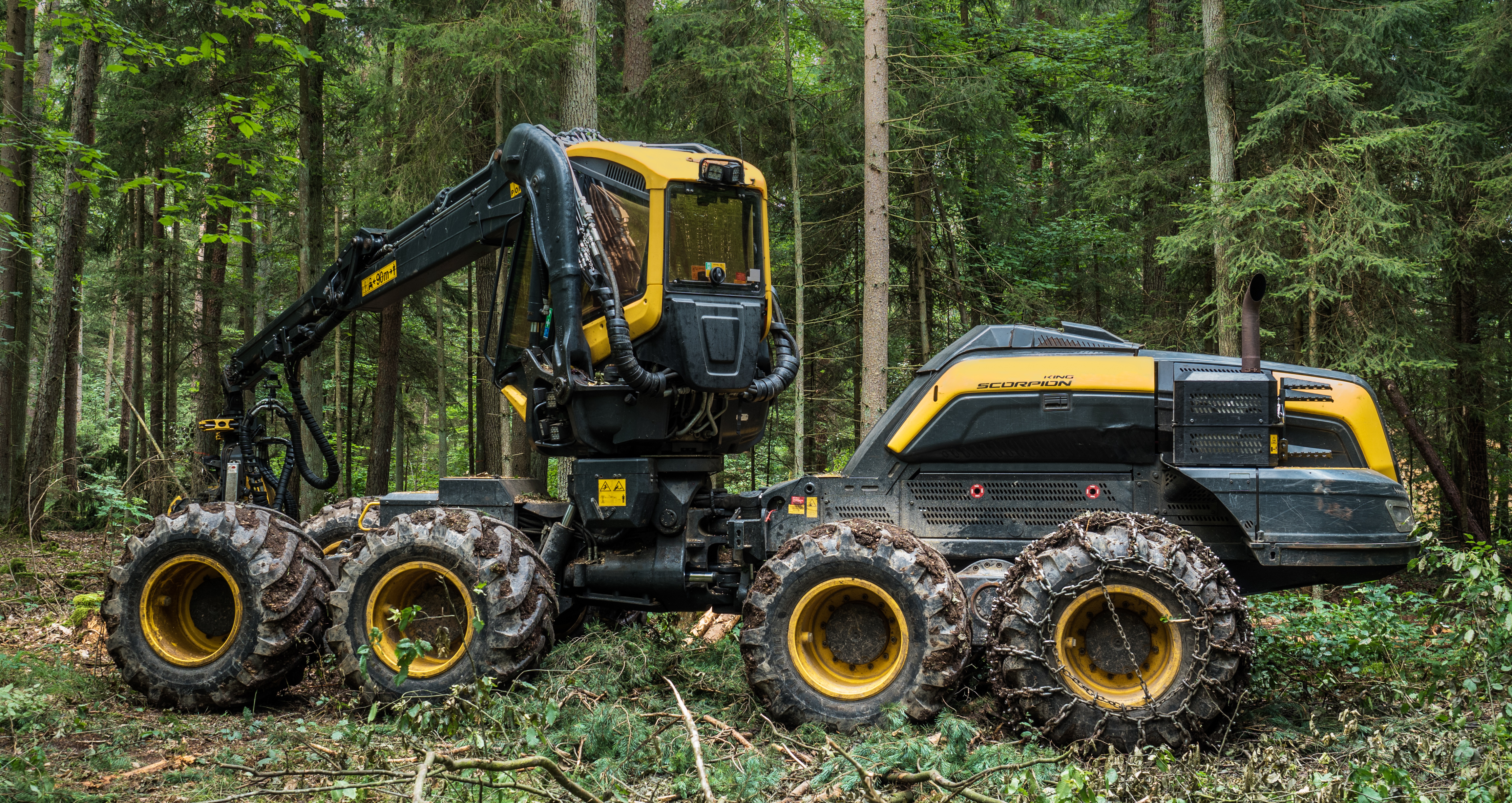 Ponsse King Scorpion forest harvester